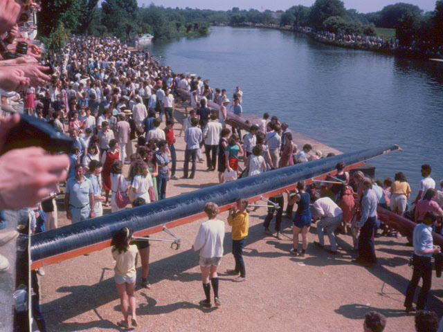 Eights Week For one week in Trinity (summer) term, the usually quiet riverbank is thronged with rowers and spectators for the annual inter-college rowing championships. This is the scene from one of the college boathouses as a boat is returned after the race.